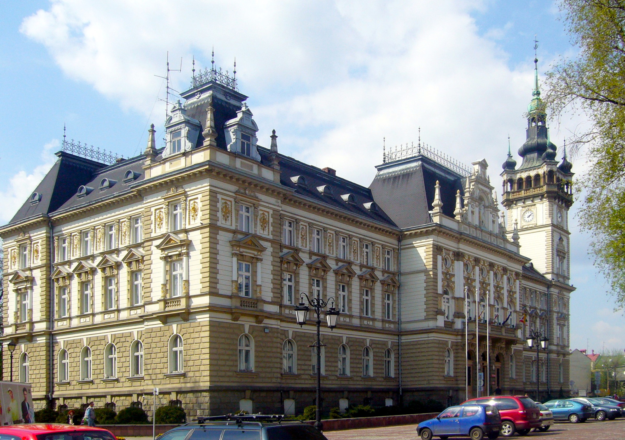 Town Hall in Bielsko-Biała.